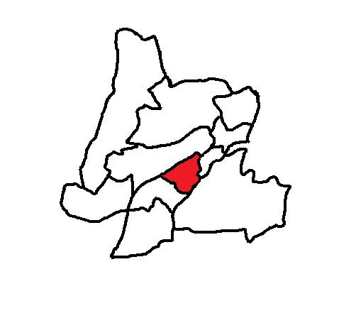 Maps based on images by Earl Warren, from the 2007 elections